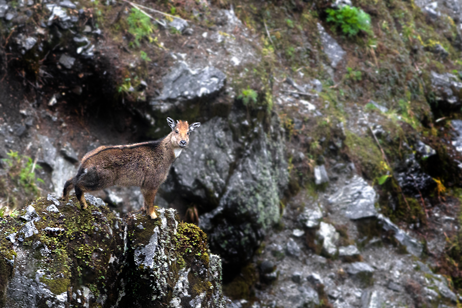 The species Himalayan Brown Goral had been photographed from Pangolakha Wildlife Sanctuary in East Sikkim, India on 13.05.2016.